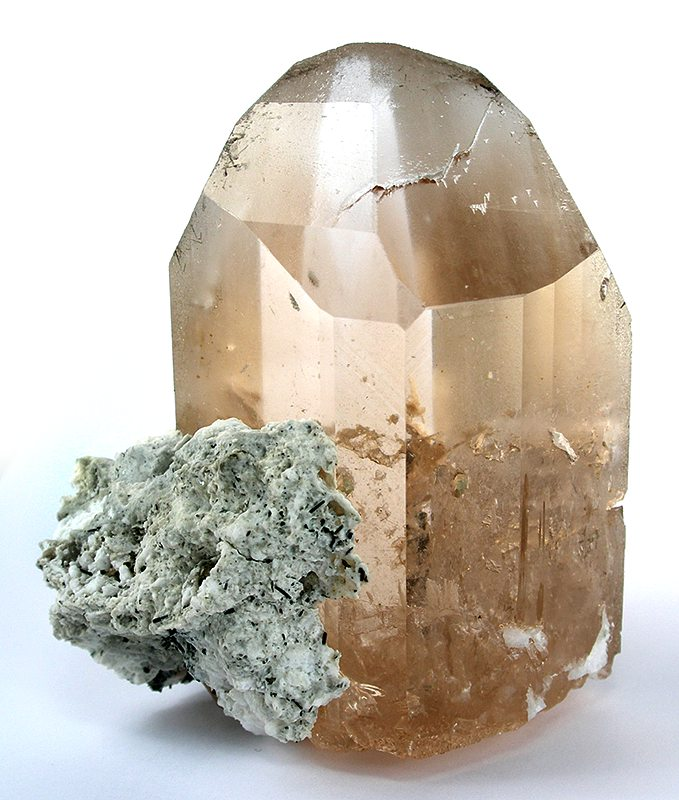 Topaz Locality: Mogok, Pyin Oo Lwin District, Mandalay Division, Burma (Myanmar) (Locality at ) Size: small cabinet, 8.5 x 7.3 x 5.3 cm Topaz Unlike most of the sherry-colored topaz specimens from Mogok, which are single crystals, this one is associated with matrix and is, surprisingly, doubly-terminated. The top termination is crystallographically complex and the crystal is totally transparent, MUCH MORE gemmy in person because of the way the camera has trouble focussing through the gemminess and ehnaces slight veils as a result. The specimen is nearly pristine, save for a few minute dings at the base. It is equant, and symmetric around its girth. A large and fine topaz, indeed! It is just SO MUCH better in person. From the William Larson Burma collection, brought out prior to the current total embargo on Burmese minerals and gemstones. "Burma Bill" as he is known there was pivotal in bringing out fine specimens in conjunction with his gemstone business, and has built the largest privately held collection of fine Burmese minerals, one could say with some degree of certainty. This was released from his collection several years ago.